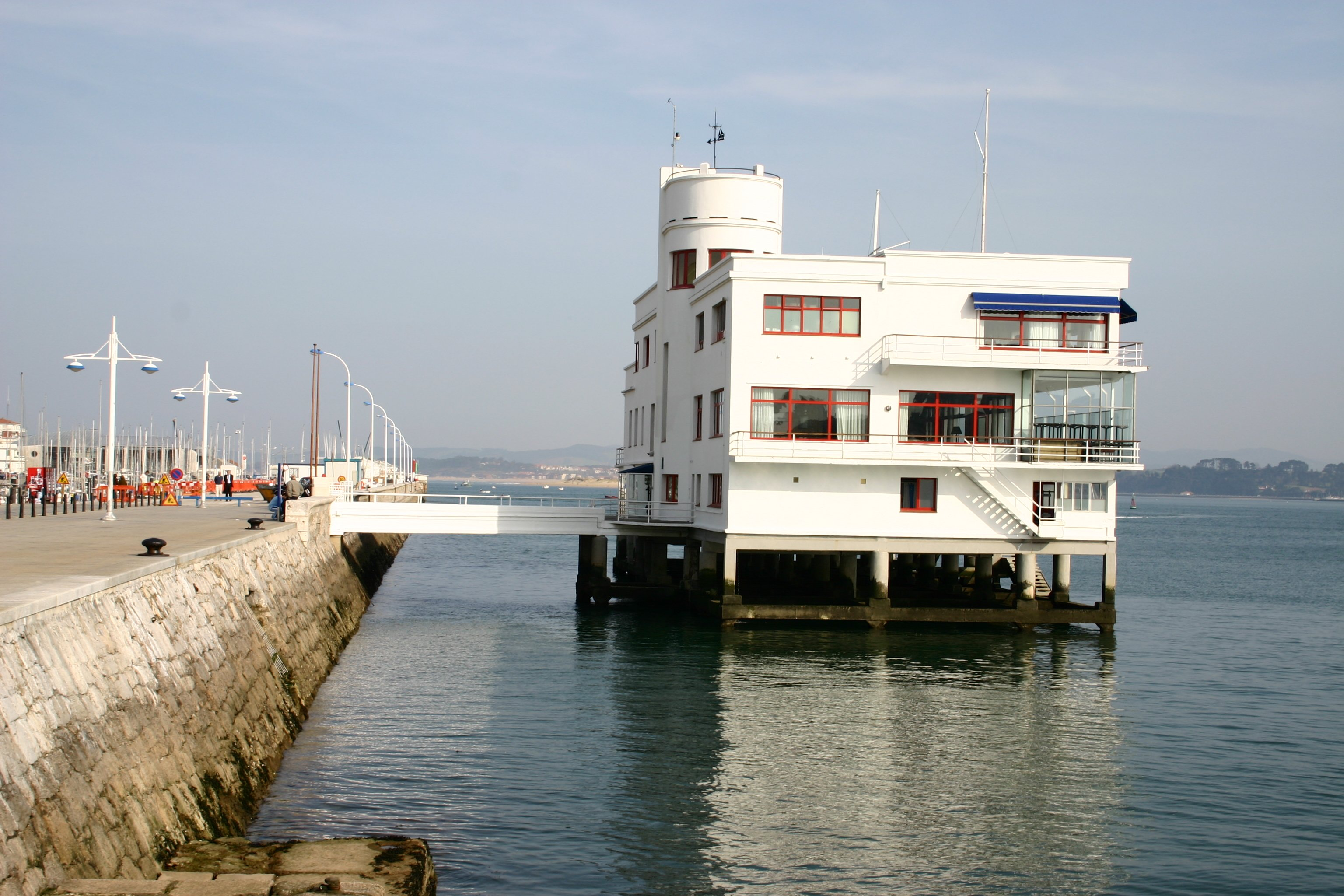 Template:ES